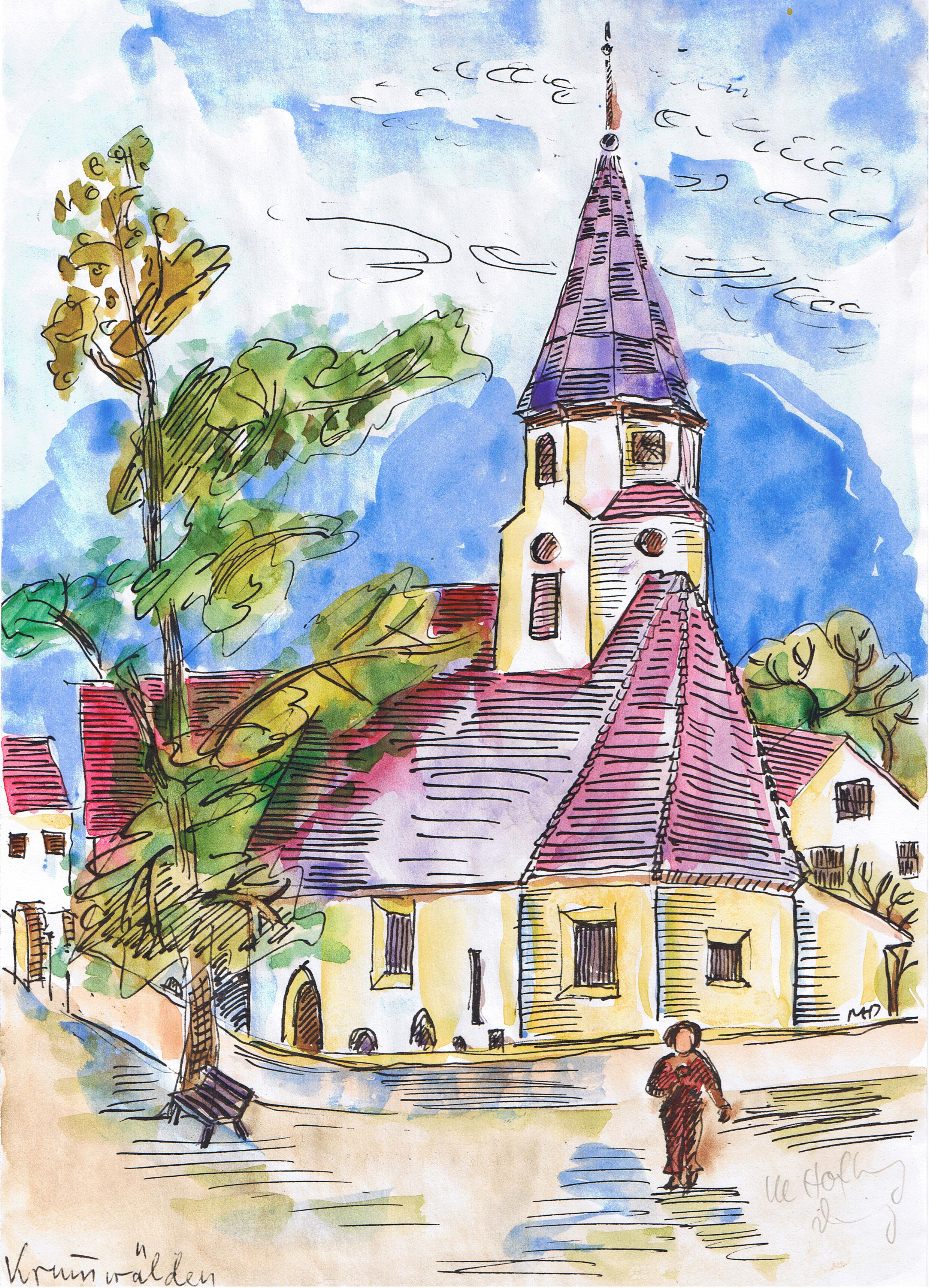 Krummwälden, quarter of Eislingen, water color